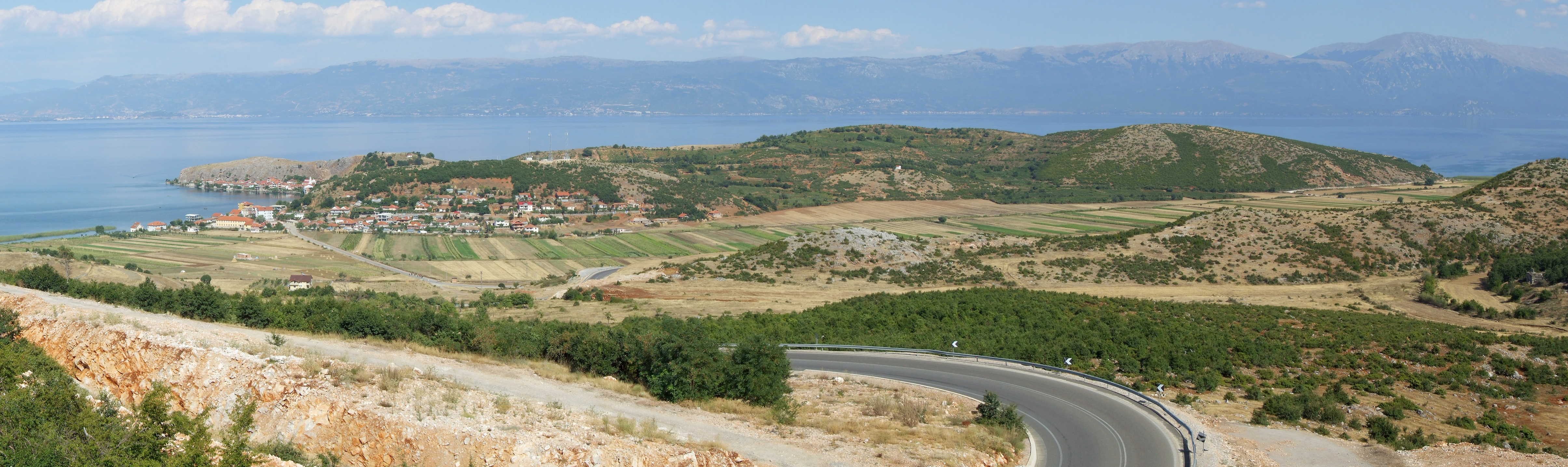 Albania - village Lin and Lake Ohrid.